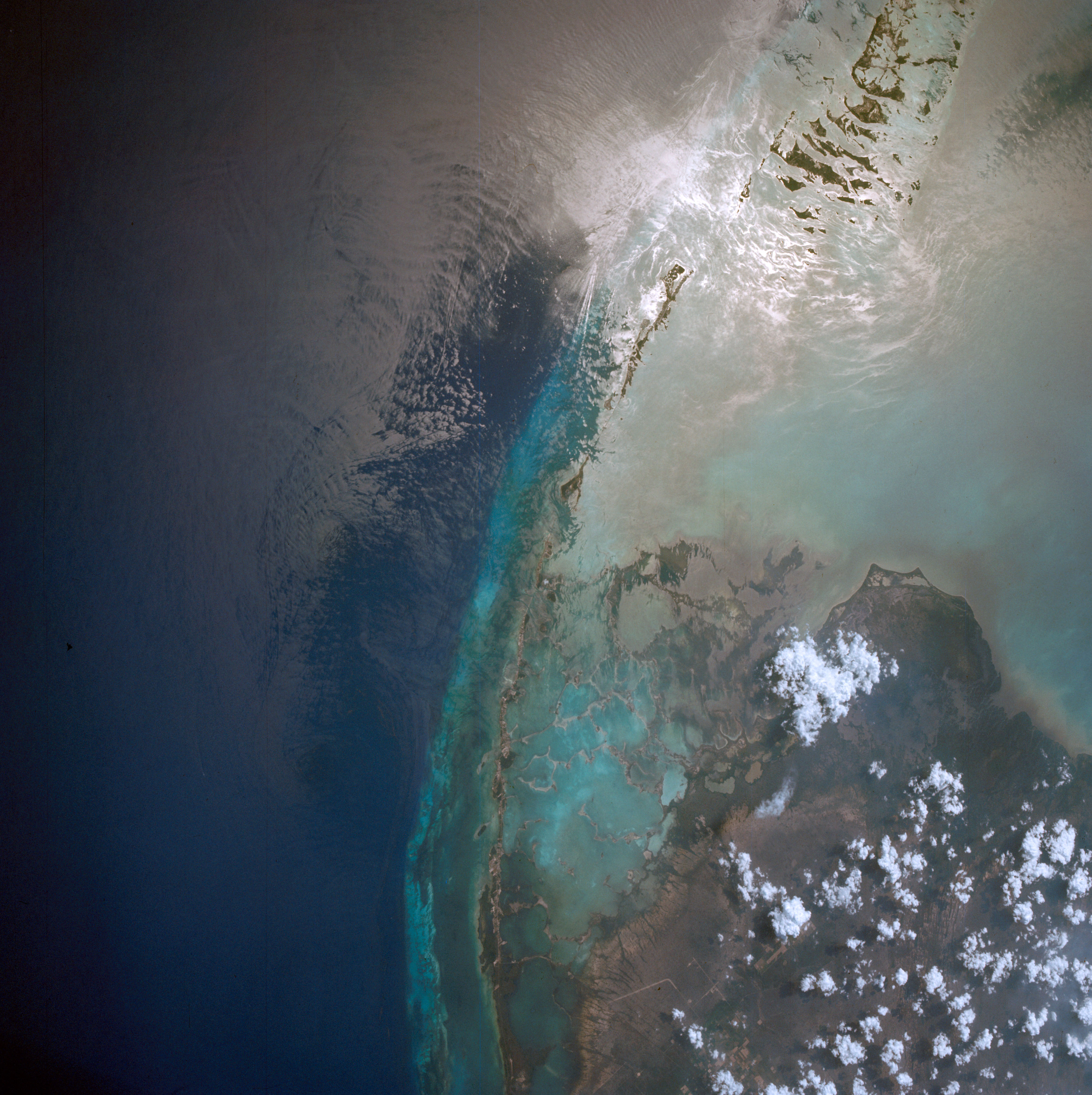 Photograph of the Florida Keys, Cape Sable and the Everglades National Park taken during the Gemini IV mission during orbit no. 18 - 19, on June 4, 1965. G.E.T. time was 28:28/ GMT time was 19:43. Original magazine number was GEM04-07-34766 taken with a Hasselblad camera and a 70mm lens. Film type was Kodak Ektachrome MS (S.O. -217).